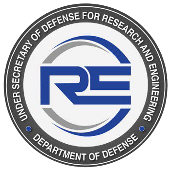 Logo of the Office of the Under Secretary of Defense for Research and Engineering